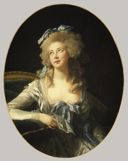 Portrait of Madame Grand (Catherine Noele Worlée, 1762–1835), Later Madame Talleyrand-Périgord